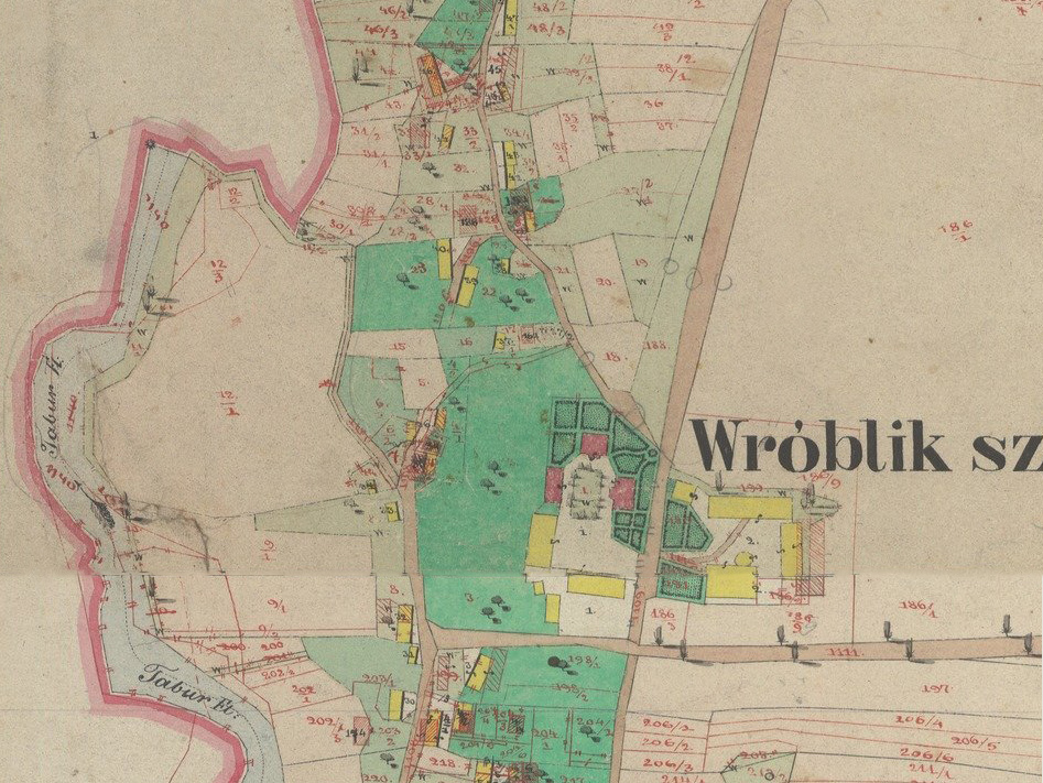 Manor house in Wróblik Szlachecki on a map from 1851